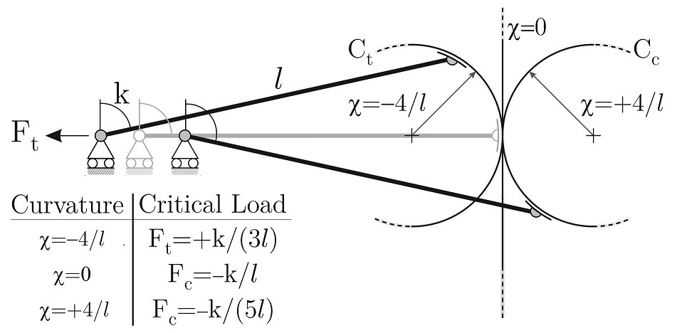 A single-degree-of-freedom structure showing the effect of the constraint's curvature on buckling